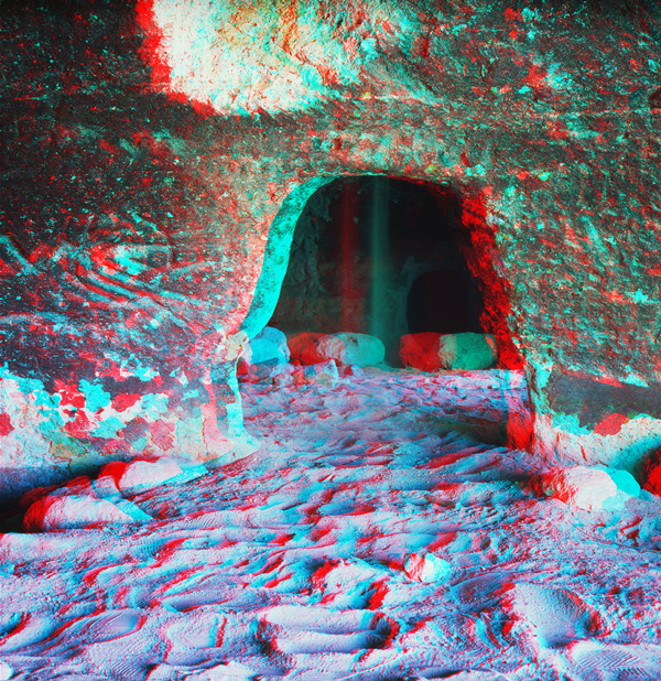 Cave at Tsankawi, Bandelier National Monument. 3-D anaglyph glasses (red/cyan) are required to view this stereo photograph in 3-D.